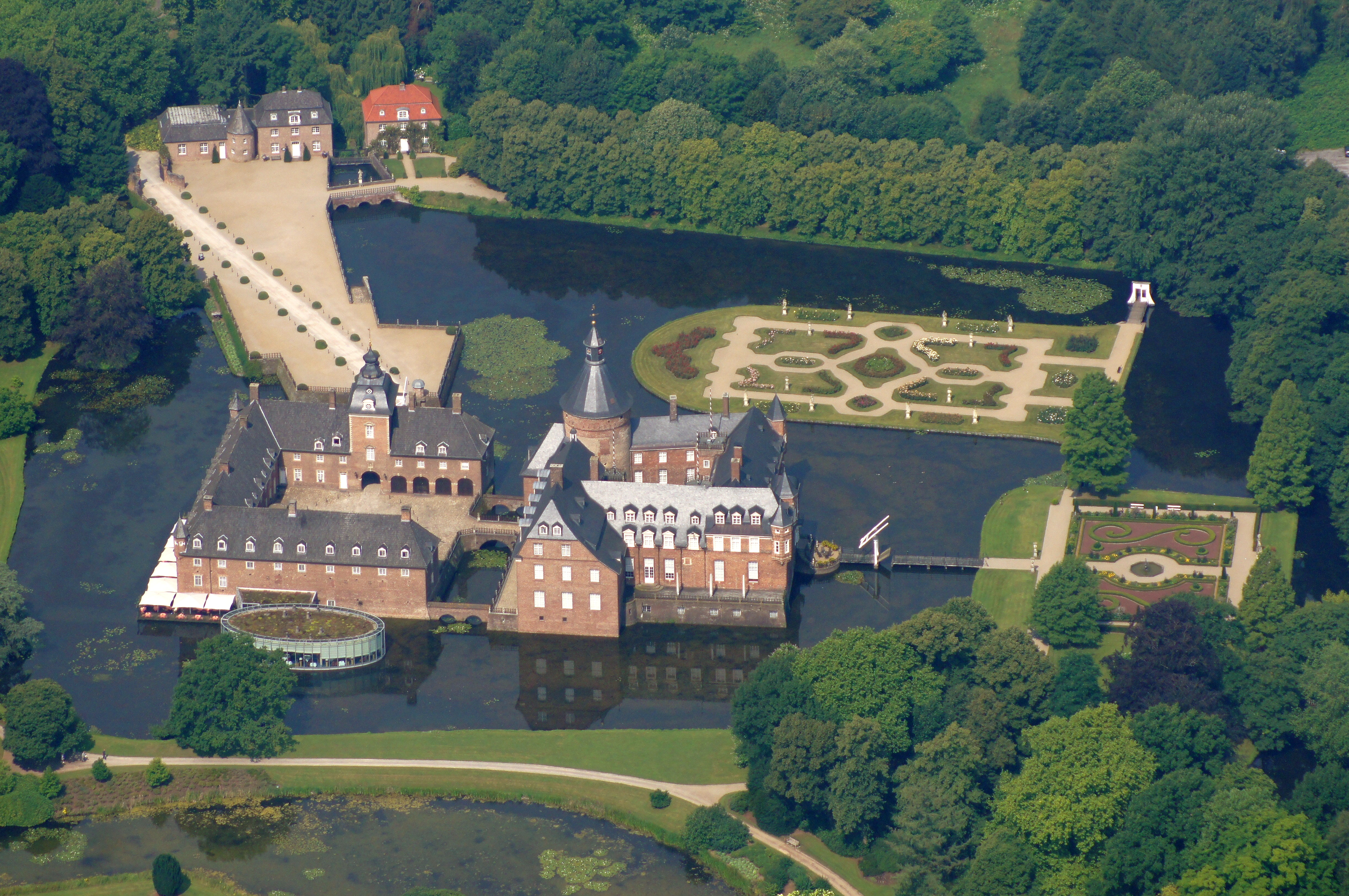 The castle of Anholt is situated in Anholt, Isselburg, district of Borken in North Rhine-Westphalia, Germany.